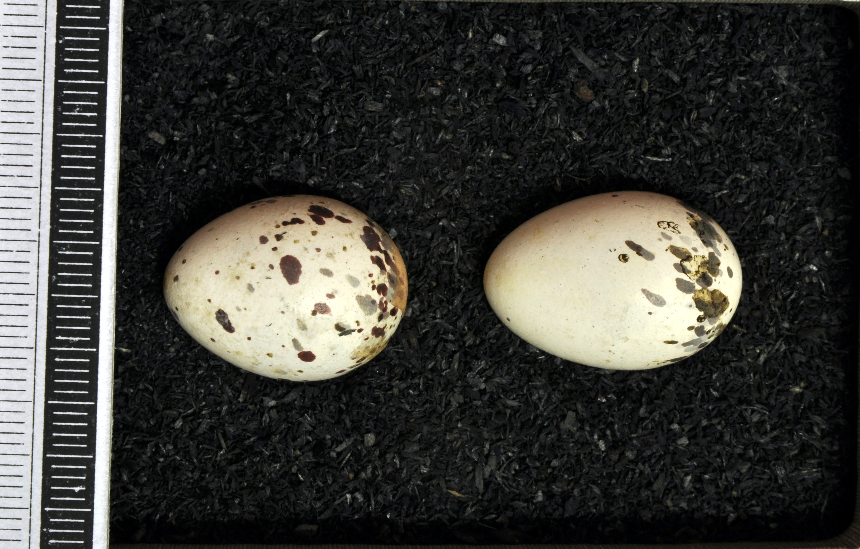 Eastern kingbird Tyrannus tyrannus , egg, Coll. Museum Wiesbaden